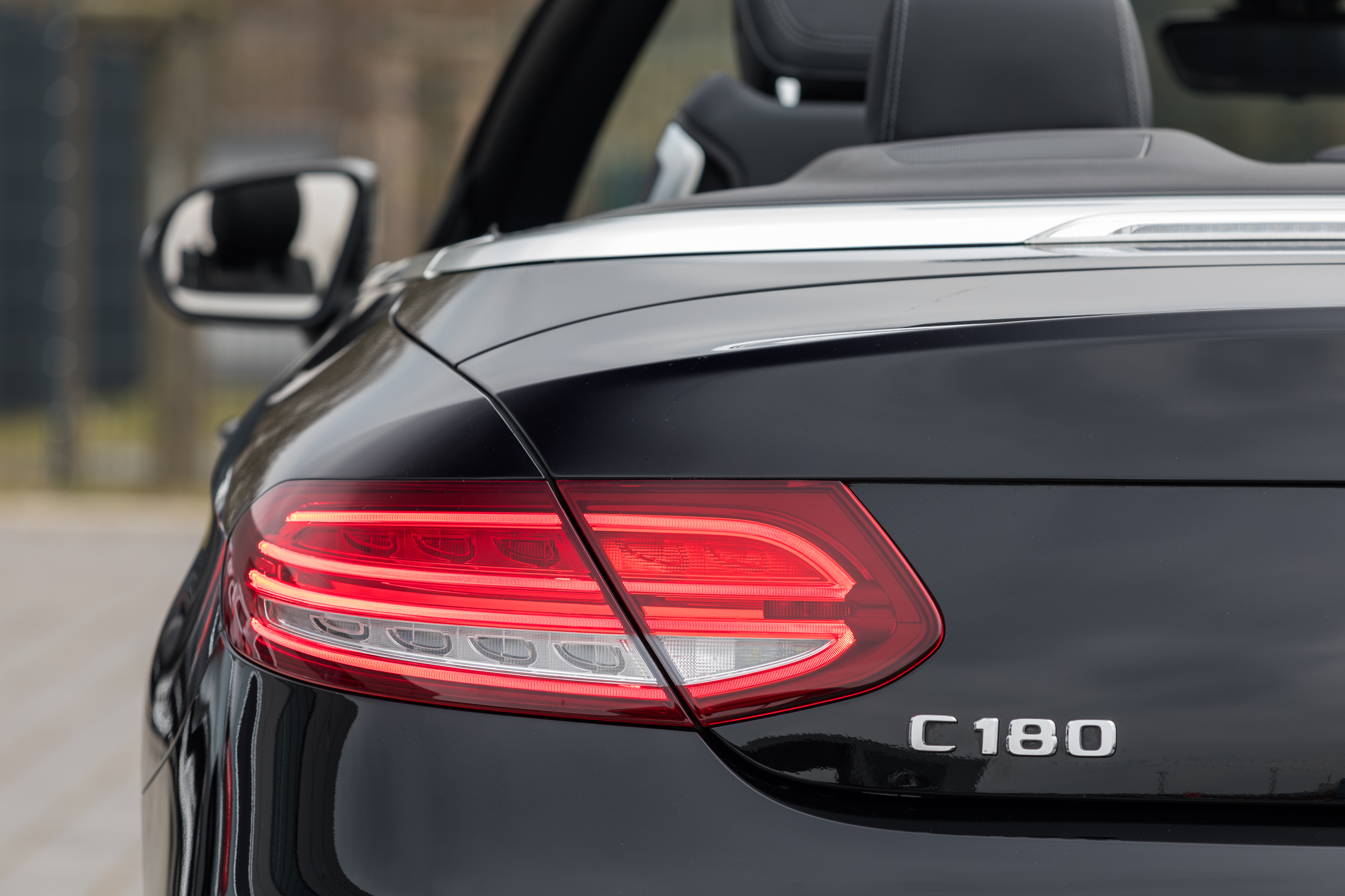 Rear light of a Mercedes-Benz C-Klasse Cabrio at car dealer Beresa in Münster, North Rhine-Westphalia, Germany